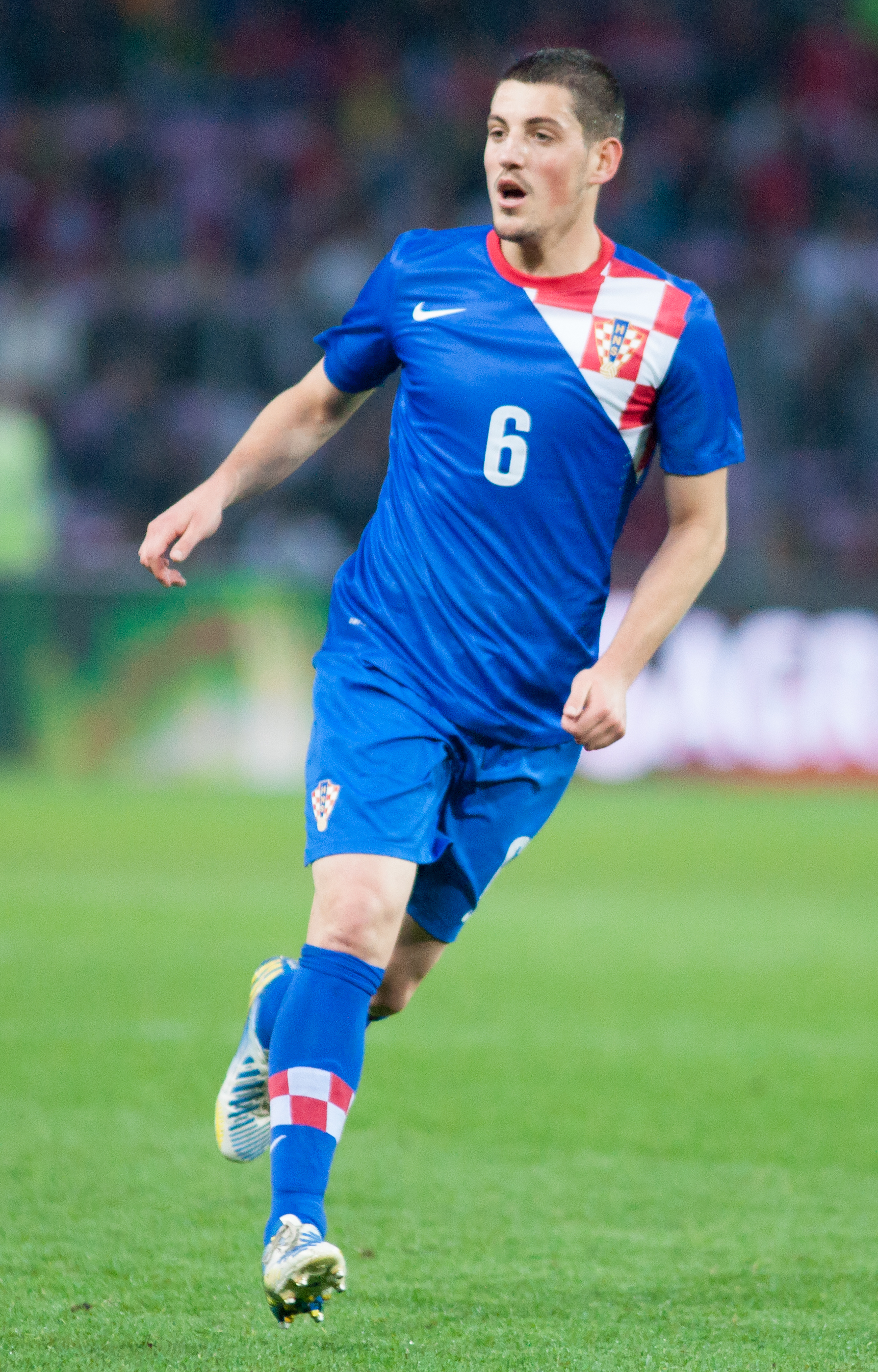 Croatia vs. Portugal, 10th June 2013